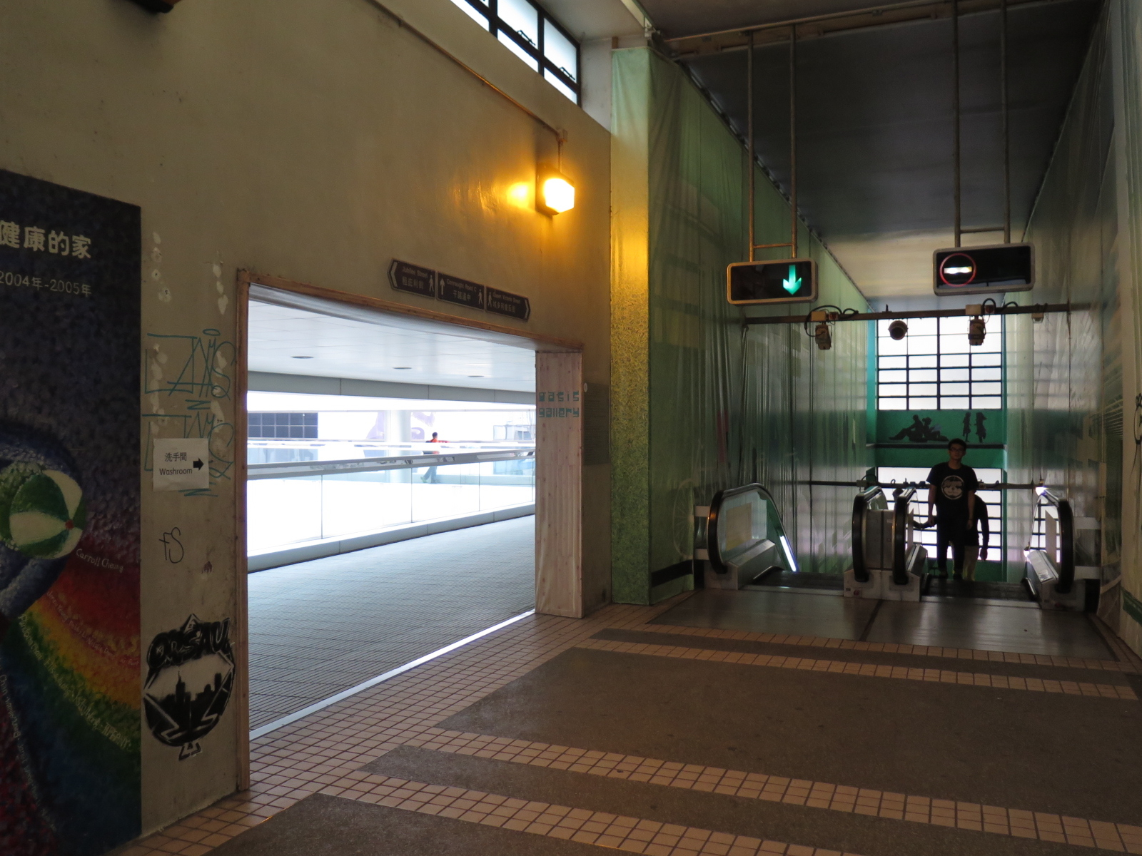 Central Market Interior Escalator